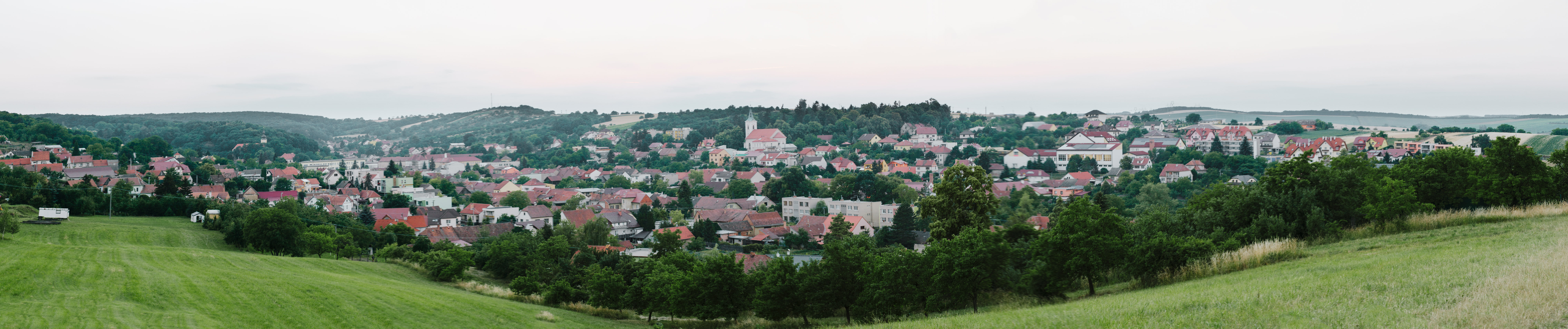 A panoramic overview of Klobouky u Brna from southeast